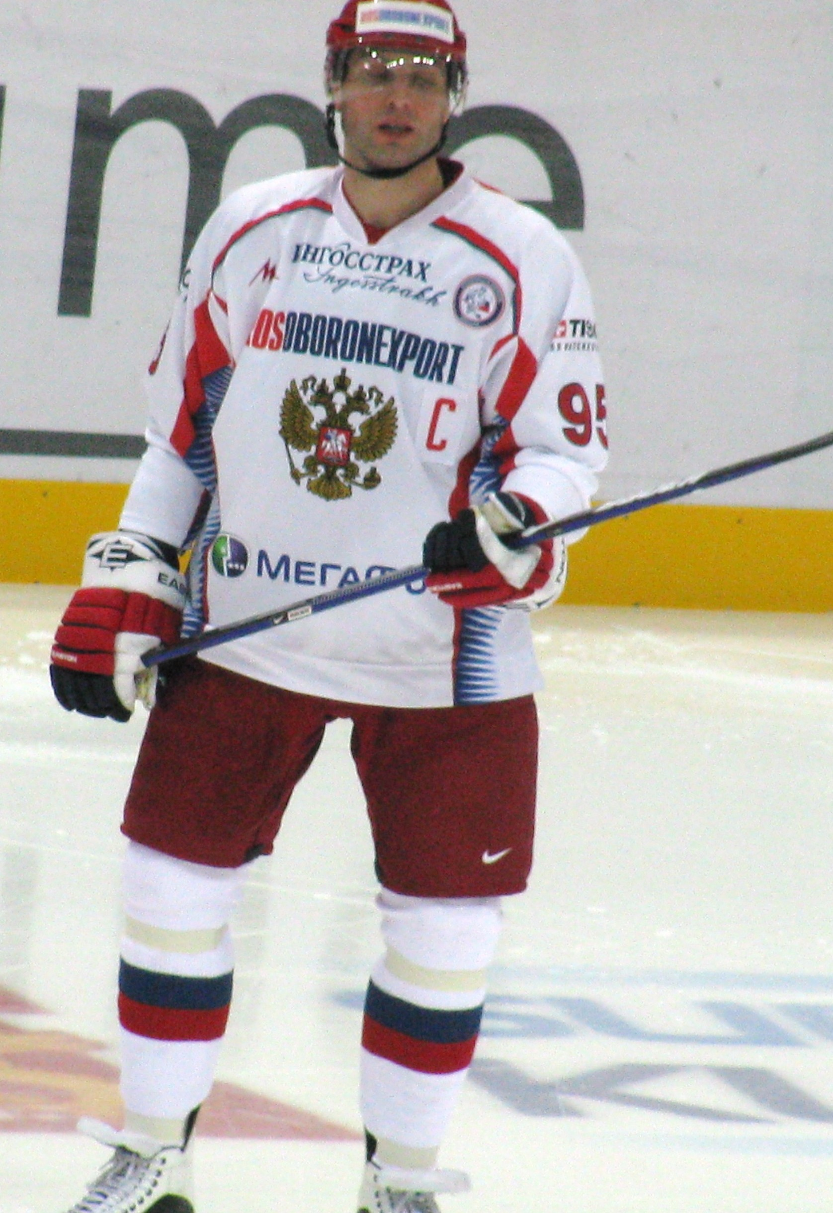 Aleksey Morozov (Russia) in a match agaist Czech Republic